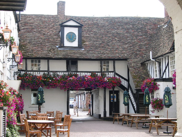 The George Hotel - Huntingdon, Cambridgeshire. This historic coaching inn was once the home of Oliver Cromwell's Grandfather. It retains the north and west wings of its 17th Century courtyard and gallery, but the rest was rebuilt after a fire in 1865.